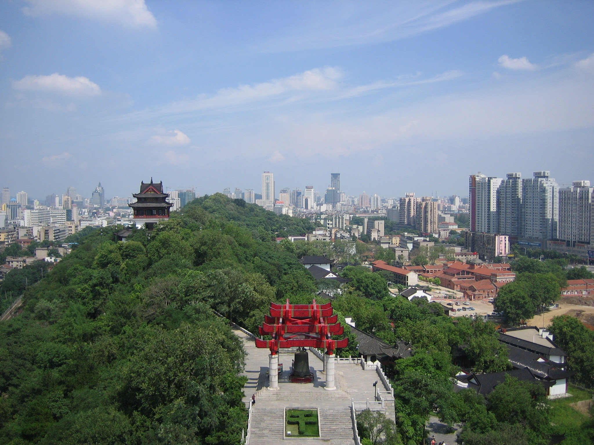 A view of Wuhan (primarily, Wuchang District), as seen looking east from the Yellow Crane Tower. The forest-covered (eastern part of the) Snake Mountain is in the center; the Wuchang Uprising Memorial / Xinhai Revolution Museum are to the right (a group of red buildings).